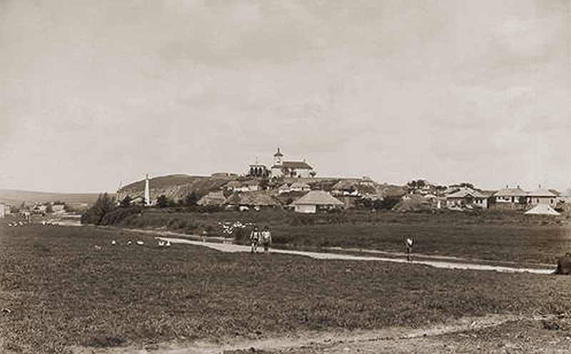 Historic image of Saints Constantine and Helena Church, Chișinău